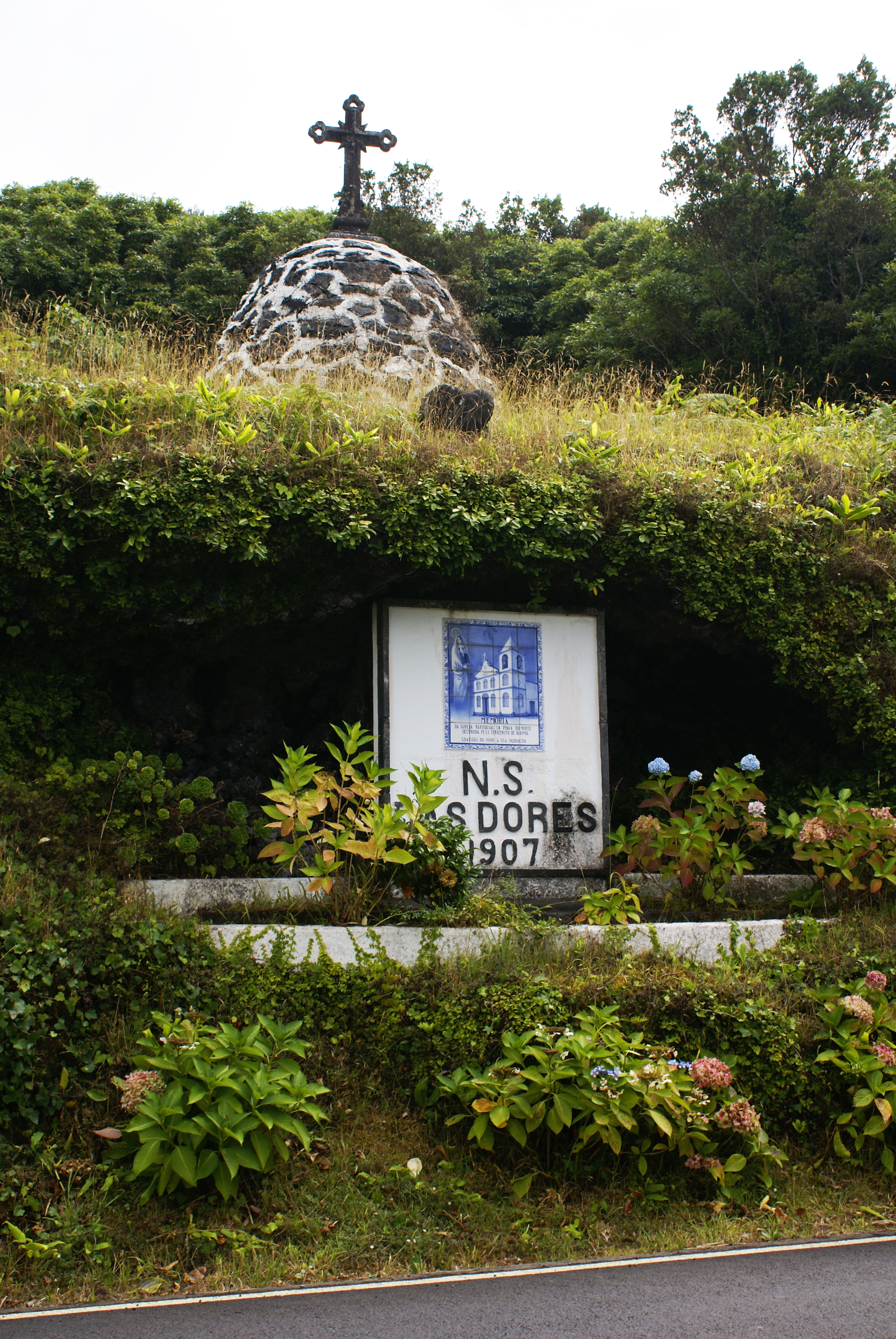 Memorial to the Church of Nossa Senhora das Dores, destroyed during the 1672 volcanic eruption and earthquakes that hit the western part of the island, Praia do Norte, Horta, Faial (Azores), Portugal